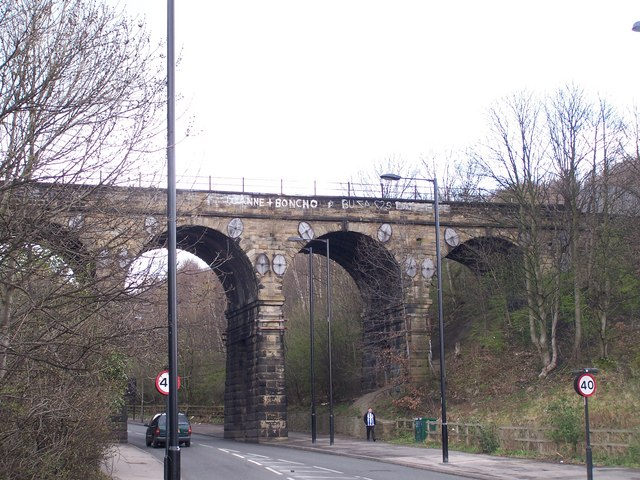 Wardsend Viaduct, Herries Road, Sheffield, South Yorkshire. View showing four of the five arches which give this railway viaduct its alternative name. The viaduct was designed by Joseph Locke and built in 1845 for the Sheffield, Ashton-Under-Lyne and Manchester Railway to take its line over the Scraith Wood Valley. The Manchester, Sheffield and Lincolnshire Railway took over the company in 1847. Herries Road was built, passing through one of the arches, in 1920. The last regular passenger train to use this viaduct ran in 1983.